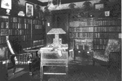 Ozcot, Hollywood, California library in 1911